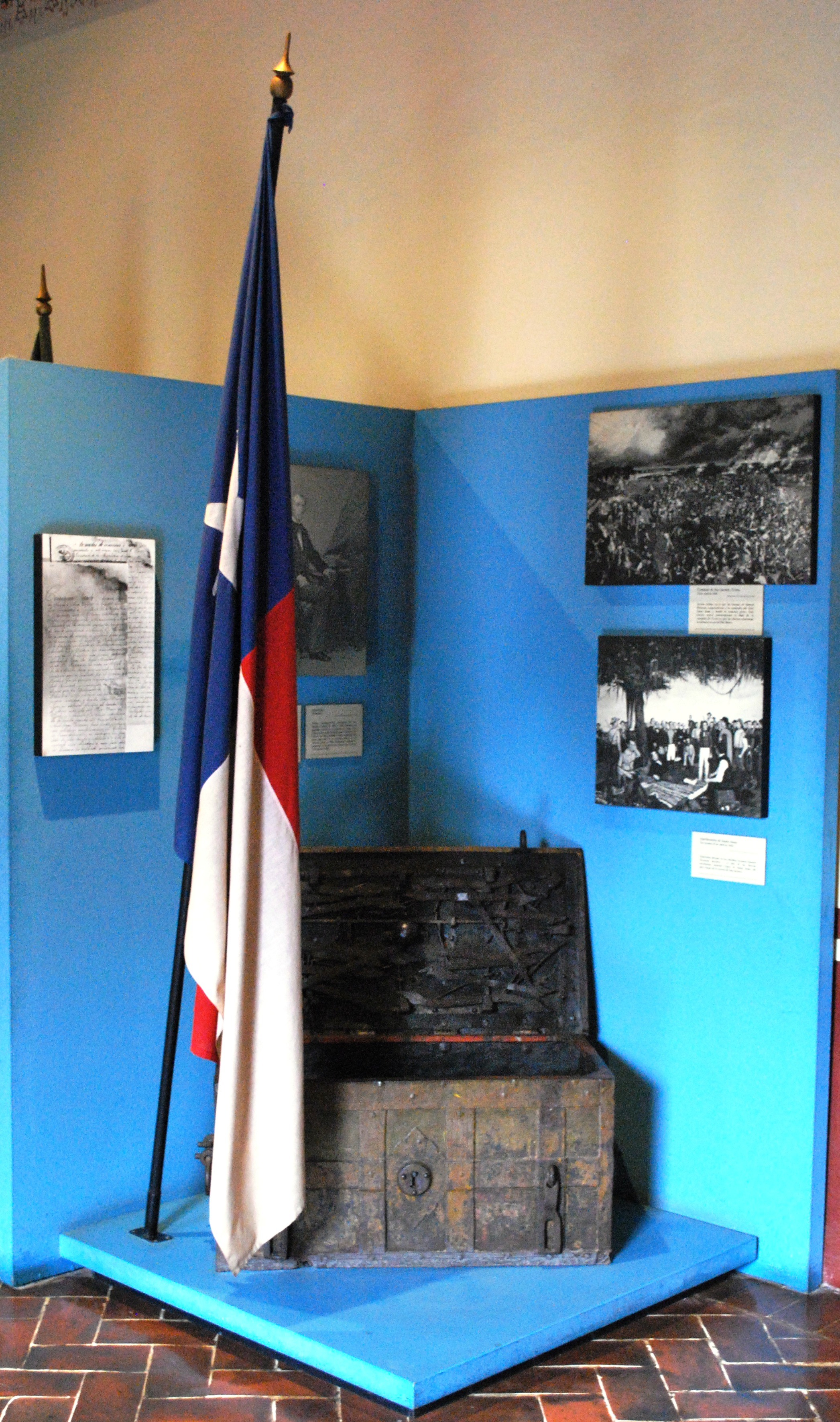 Texas flag from the Alamo on display at the Museo Nacional de las Intervenciones (ex Monastery of Churubusco) in Coyoacan borough, Mexico City